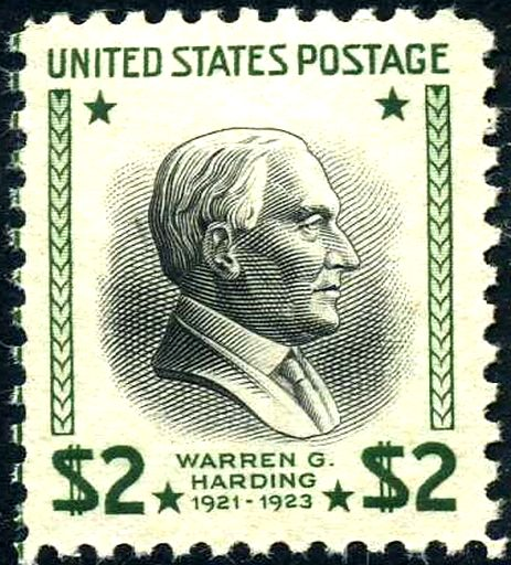 US Postage stamp: Warren Harding, Issue of 1938, $2